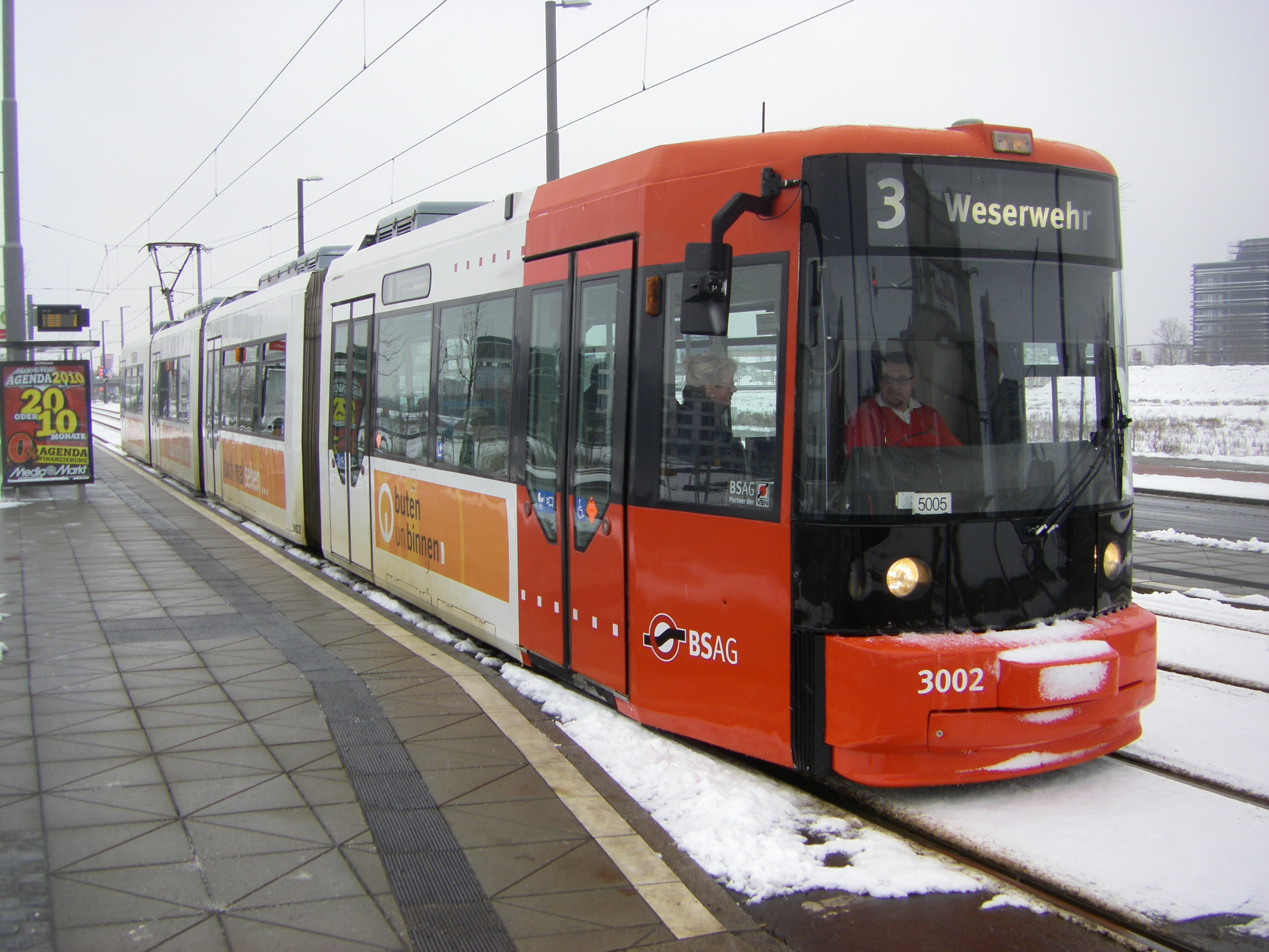 Tram Nr. 3002 in Bremen,Ueberseestadt (2009)